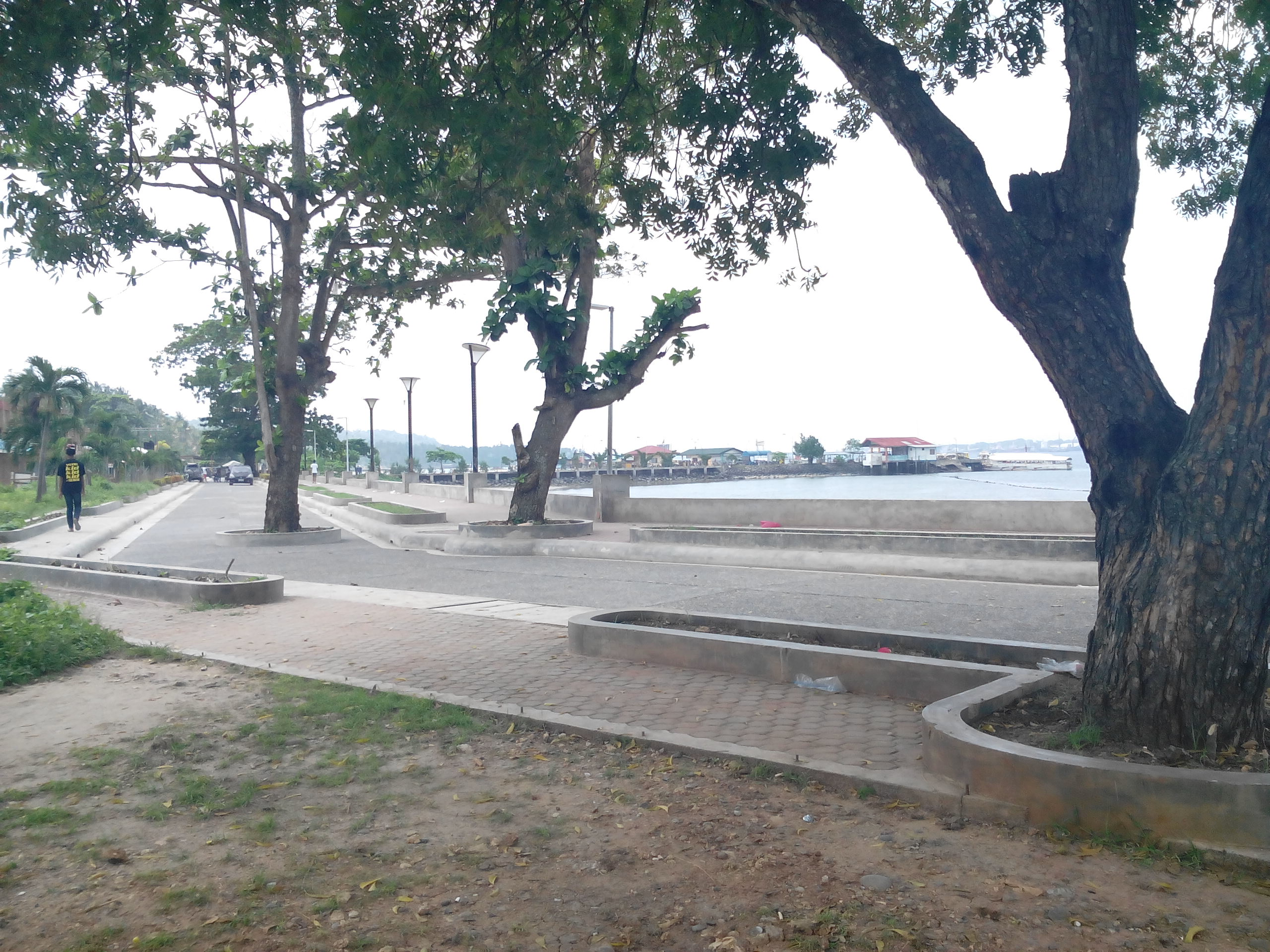 Baywalk in Babak District, Samal Island Garden City, Philippiness